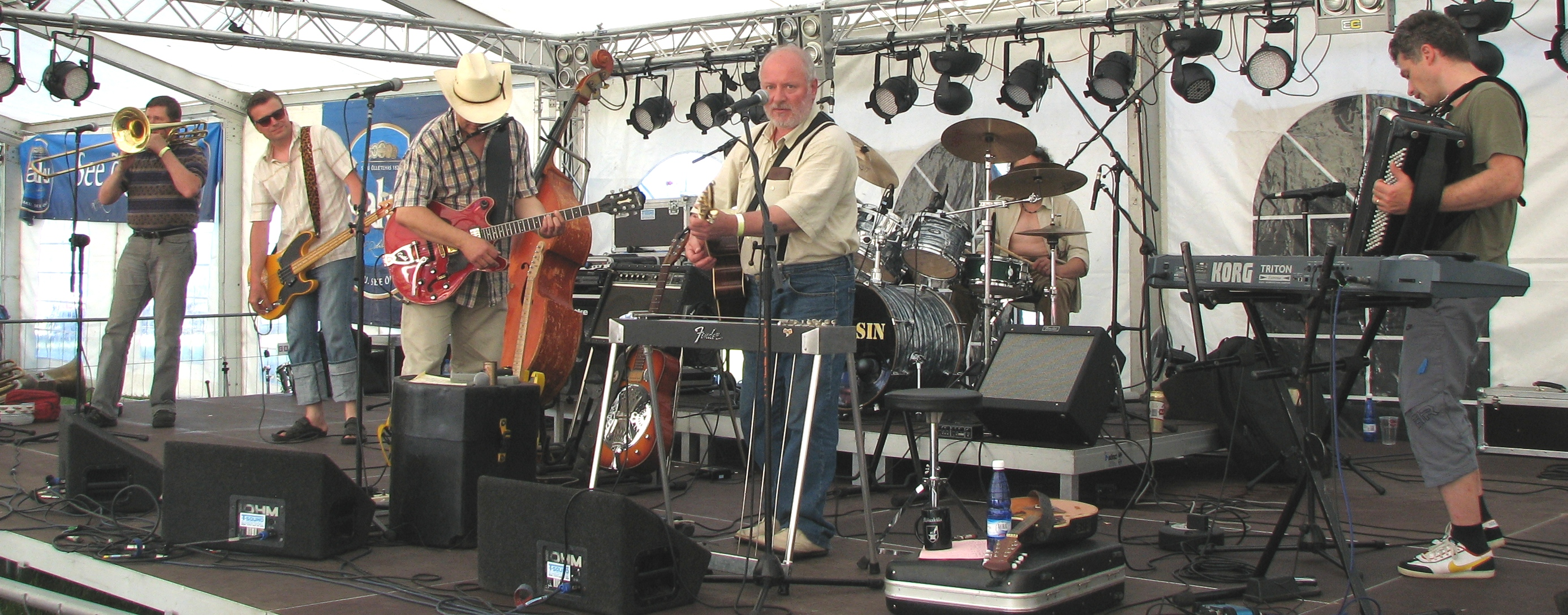 Band Apelsin performing in Õlletoober 2010